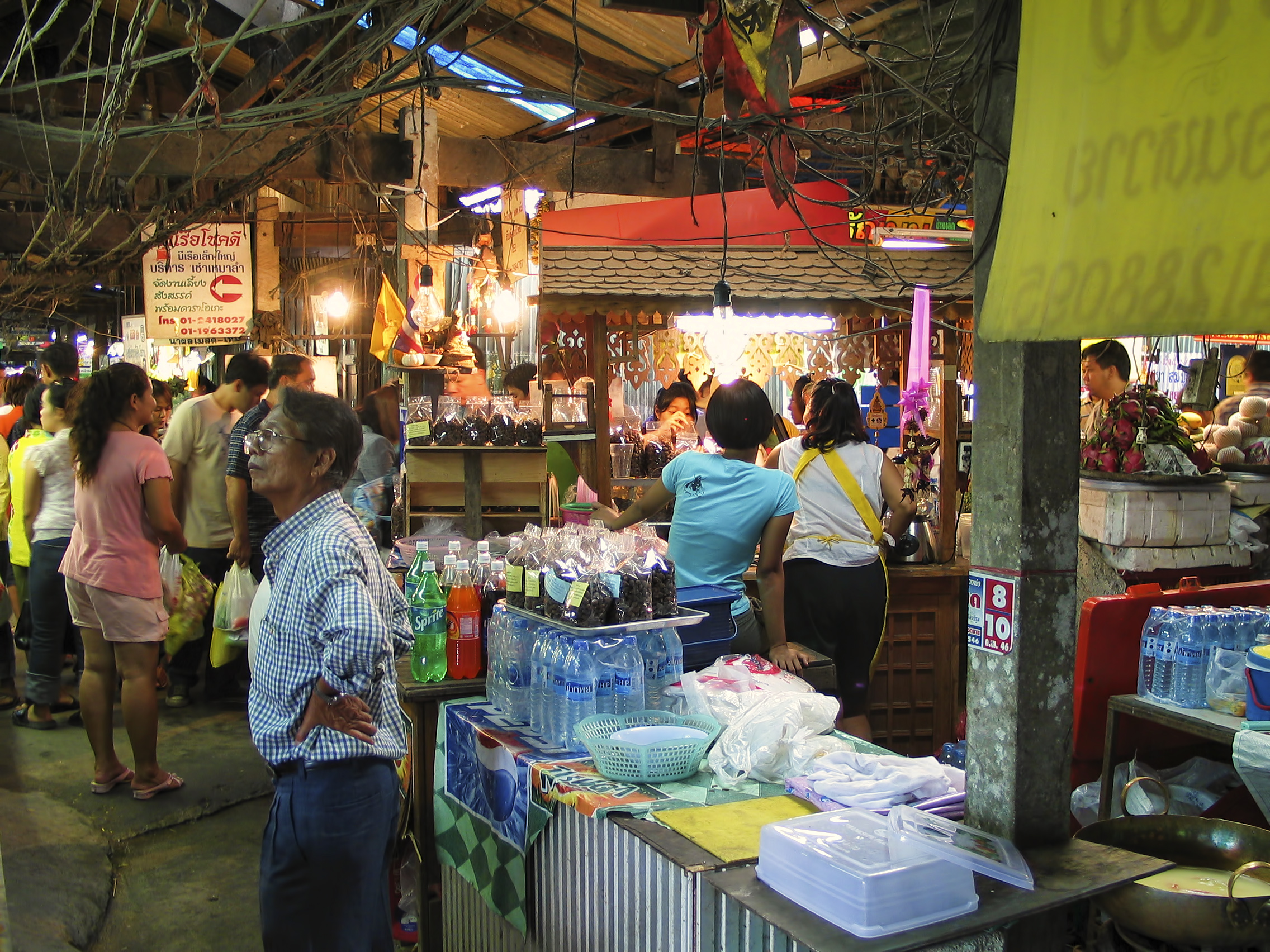 Talat Nam Don Wai – Don Wai Market – in the Sam Phran district of Nakhon Pathom province on the banks of the Nakhon Chaisi river.